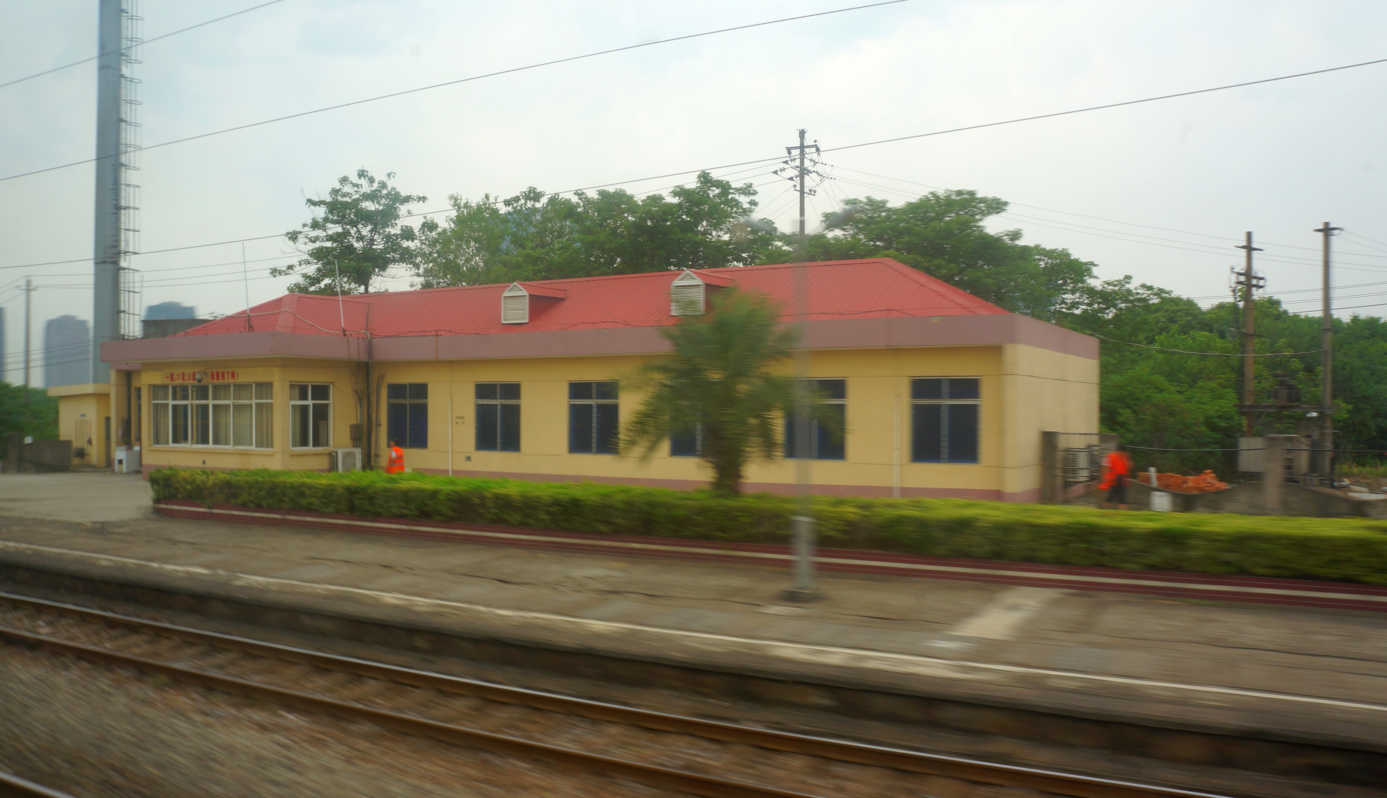 201705 Station building of Jiujiangnan Station